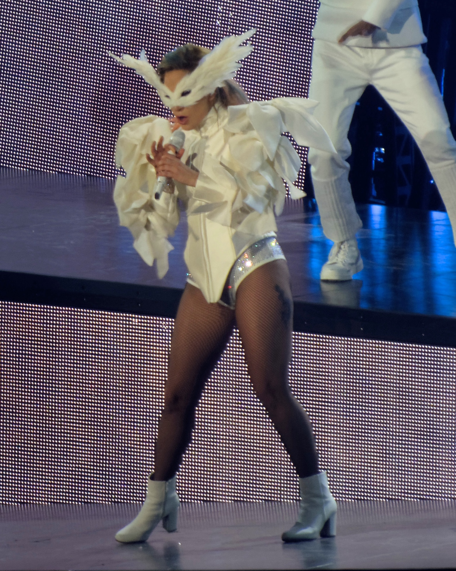 Lady Gaga performing "Bad Romance" in Tacoma, during the Joanne World Tour.